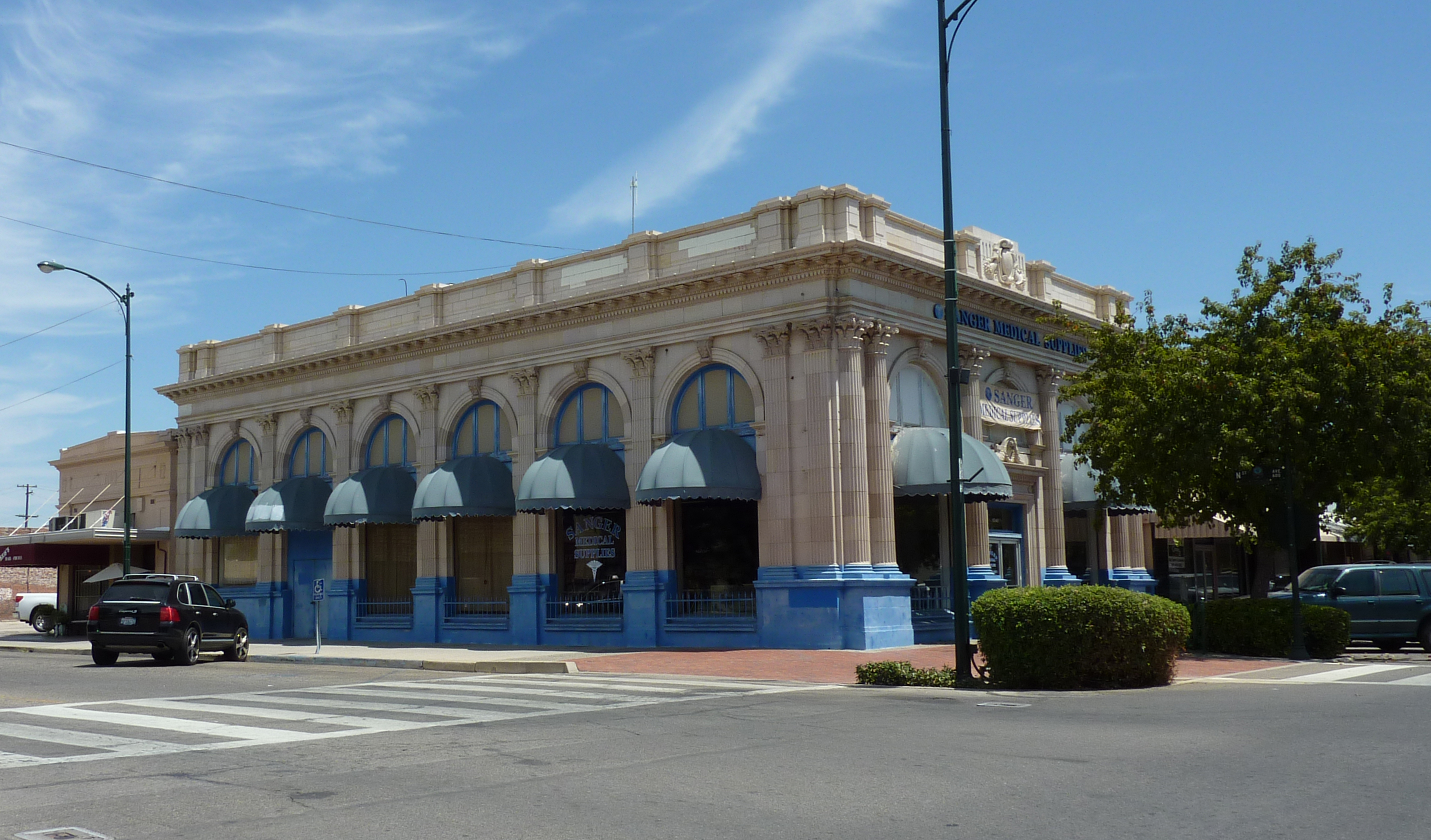 An old bank building, Sanger, California, USA.